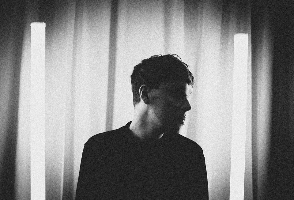 Mountain Bird in London 2016